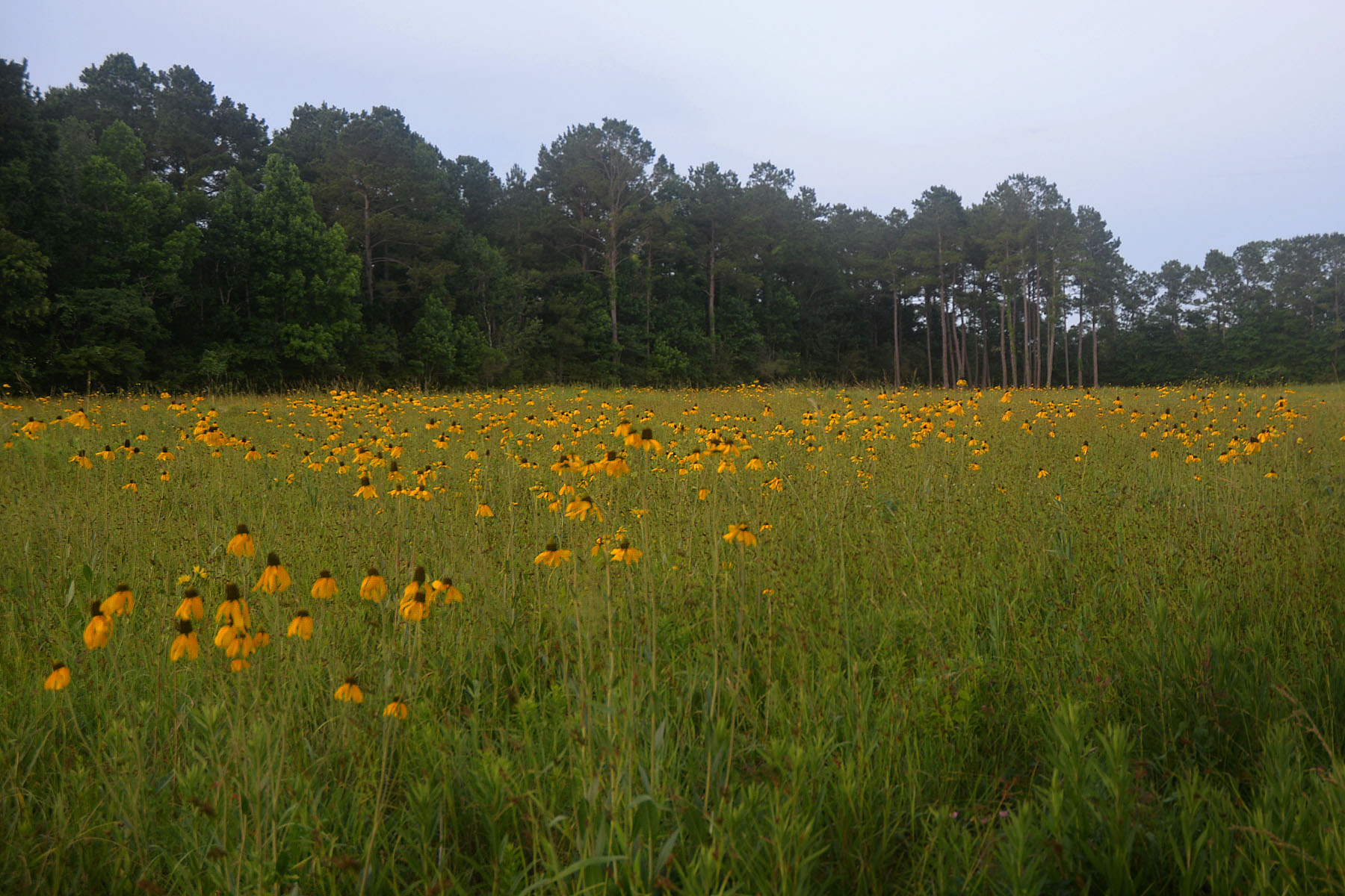 Marysee Prairie Preserve, County Road 2077, Liberty County, Texas, USA. Photographed on 22 May 2020 by William L. Farr